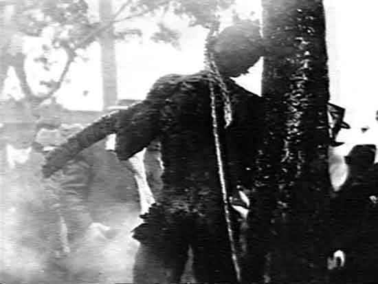 Supplements the page Sam Hose, regarding a widely-publicized and infamous lynching of a black man, who defended himself when threatened, in 1899 CE.